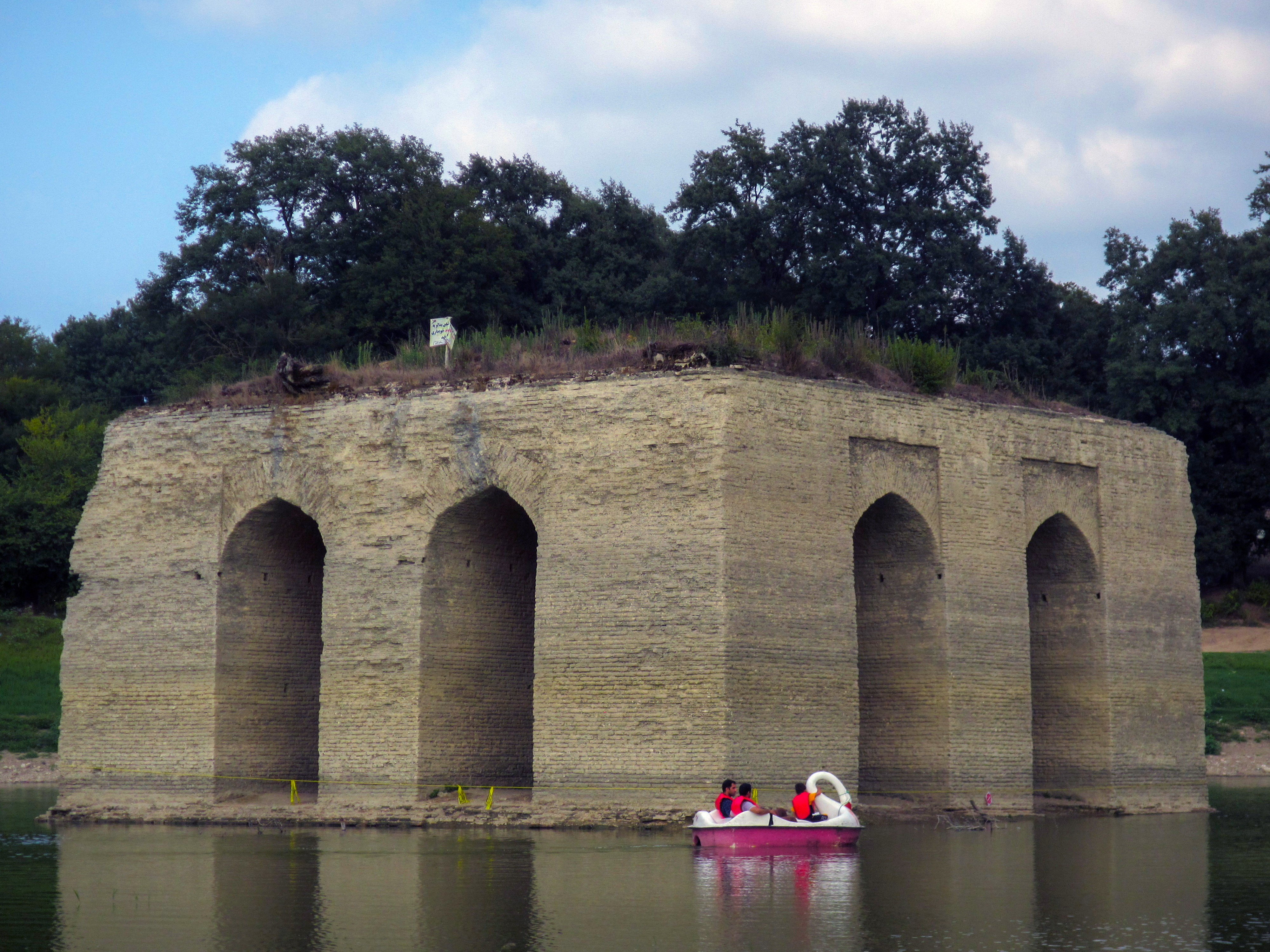 The Abbas Abad Complex (Persian: مجموعه عباس آباد Majmoo'e Abbas Abad or Bāghe Abbas Abad or Abbas Abad Garden and Abbas Abad Lake) is an old historical Persian Garden in Behshahr, Iran. Abbas Abad Complex global registration in World Heritage Site with code (i)(ii)(iii)(iv)(vi) by UNESCO.